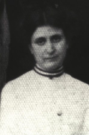 Irene Dendrinou (1879-1974): Greek poet